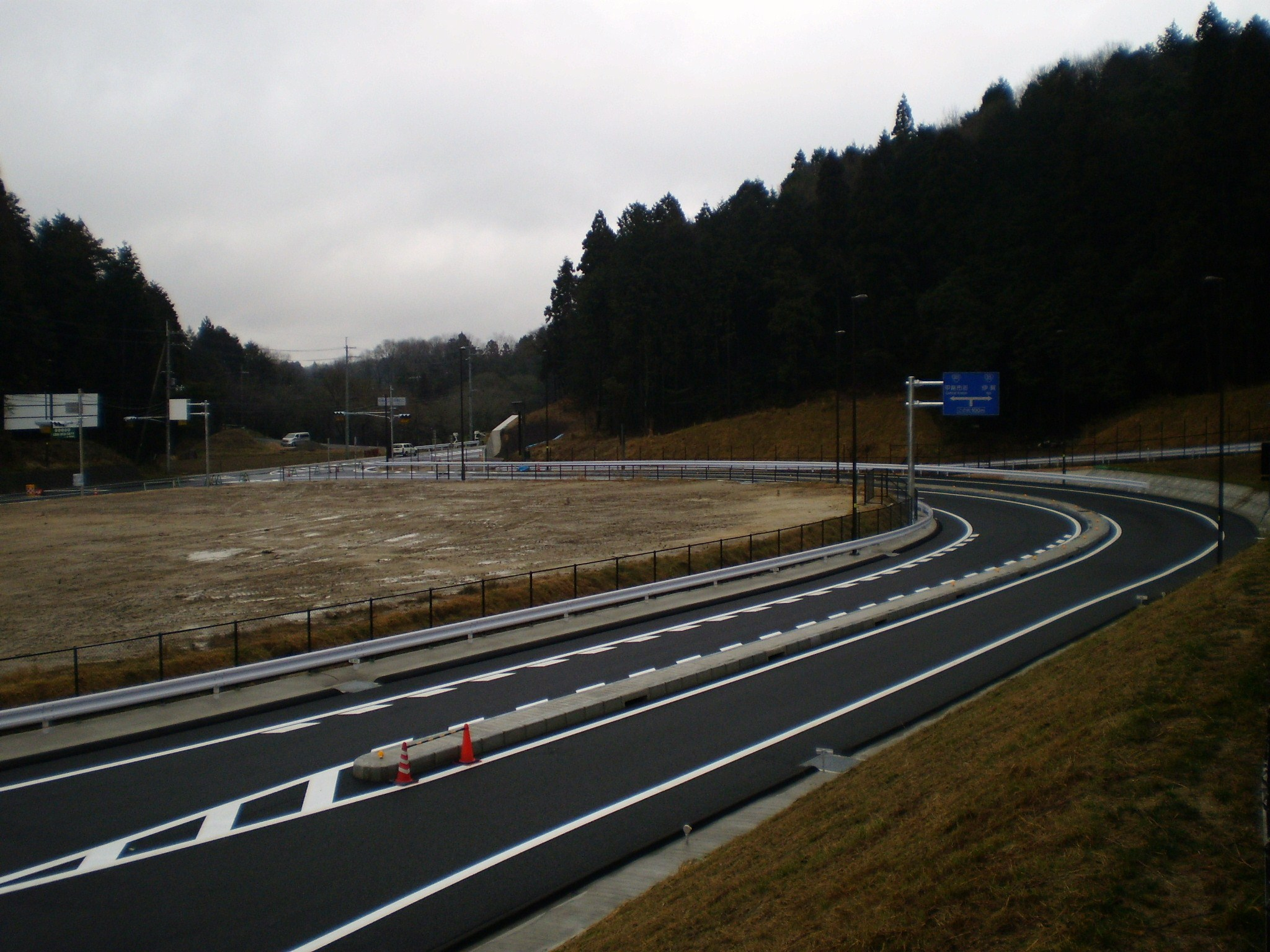 The 343rd in Shiga prefectural highway Konan inter line I took this image at Shinji Konan-cho Koka City Shiga Pref., Japan.